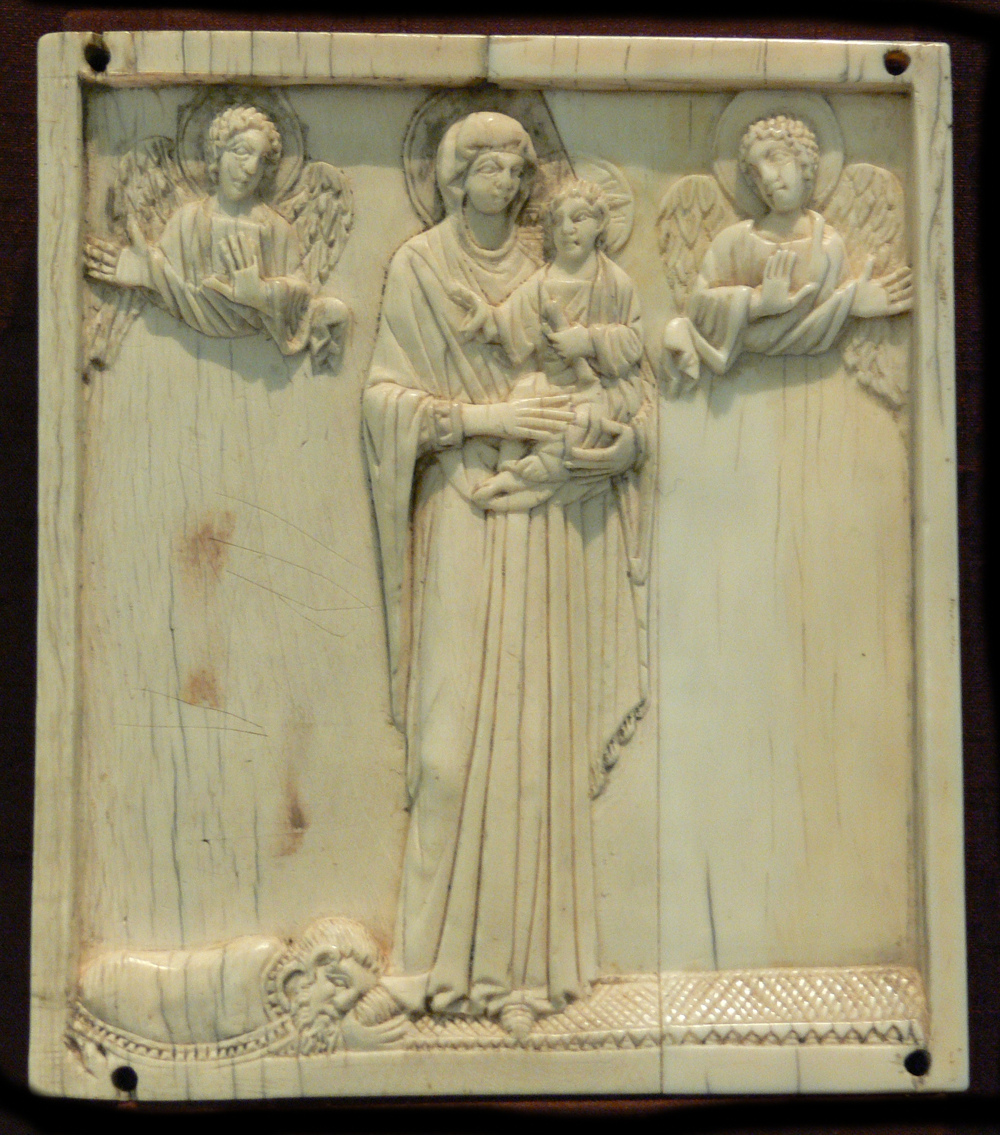 Standing Madonna with Child; two angels; a benefactor doing proskynesis; Byzantium or Southern Italy; end of 10th century (the right third added later) Bayerisches Nationalmuseum München, Inv. MA 162; erworben um 1875